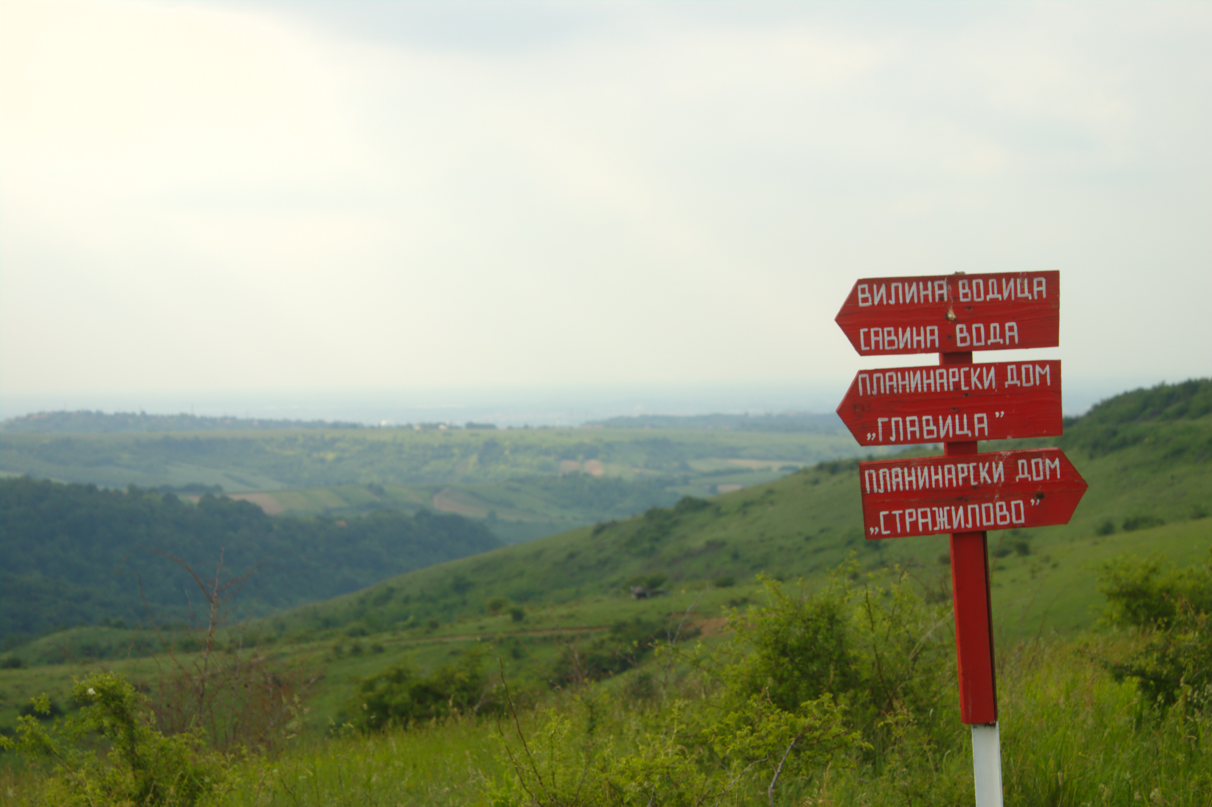 Tourist sign in Fruška Gora, on a path from the town of Bukovac towards Sremska Kamenica, Serbia